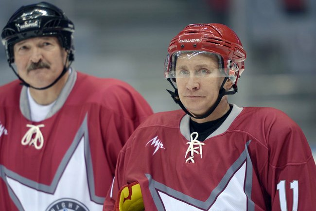 Vladimir Putin on Friendly Match of National Hockey Stars. Ice arena "Bolshoy", Sochi, 4 Jan 2014. - With Aleksandr Lukashenko.